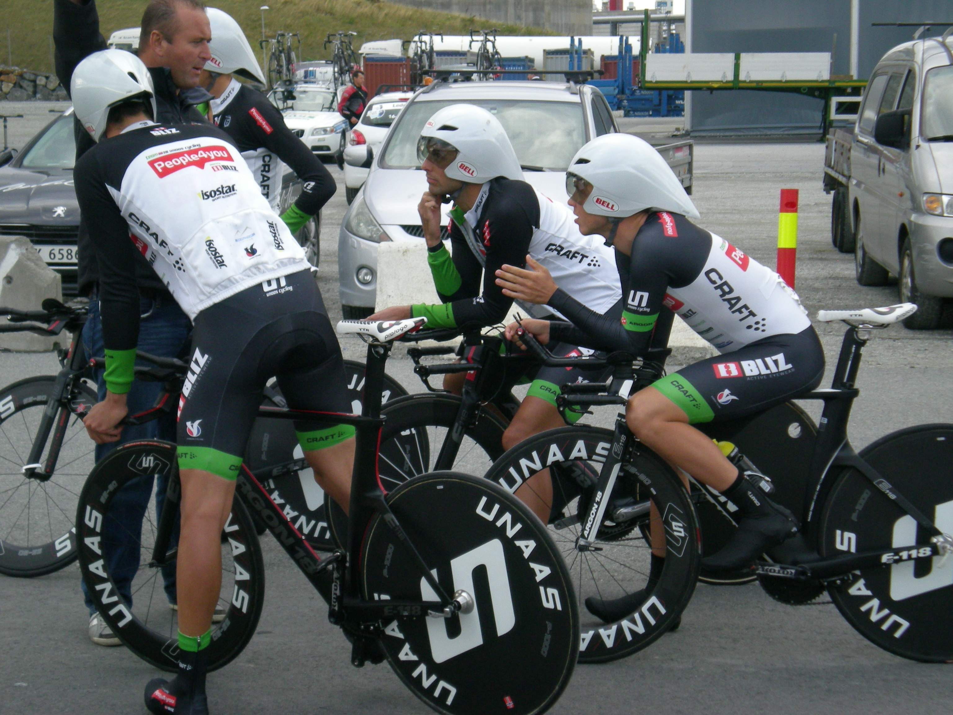 Team People4you Unaas Cycling at the start of stage 3 in Tour des Fjords 2013